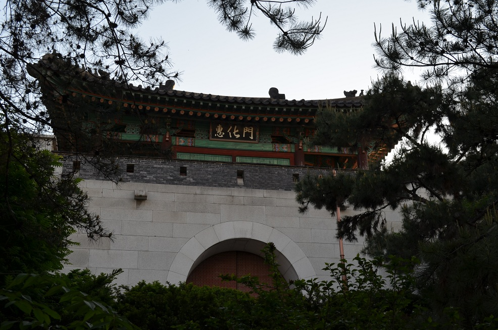 Hyehwamun Gate, also known as Northeast Gate or Dongsomun, Seoul, South Korea. Photographed May 5, 2012.